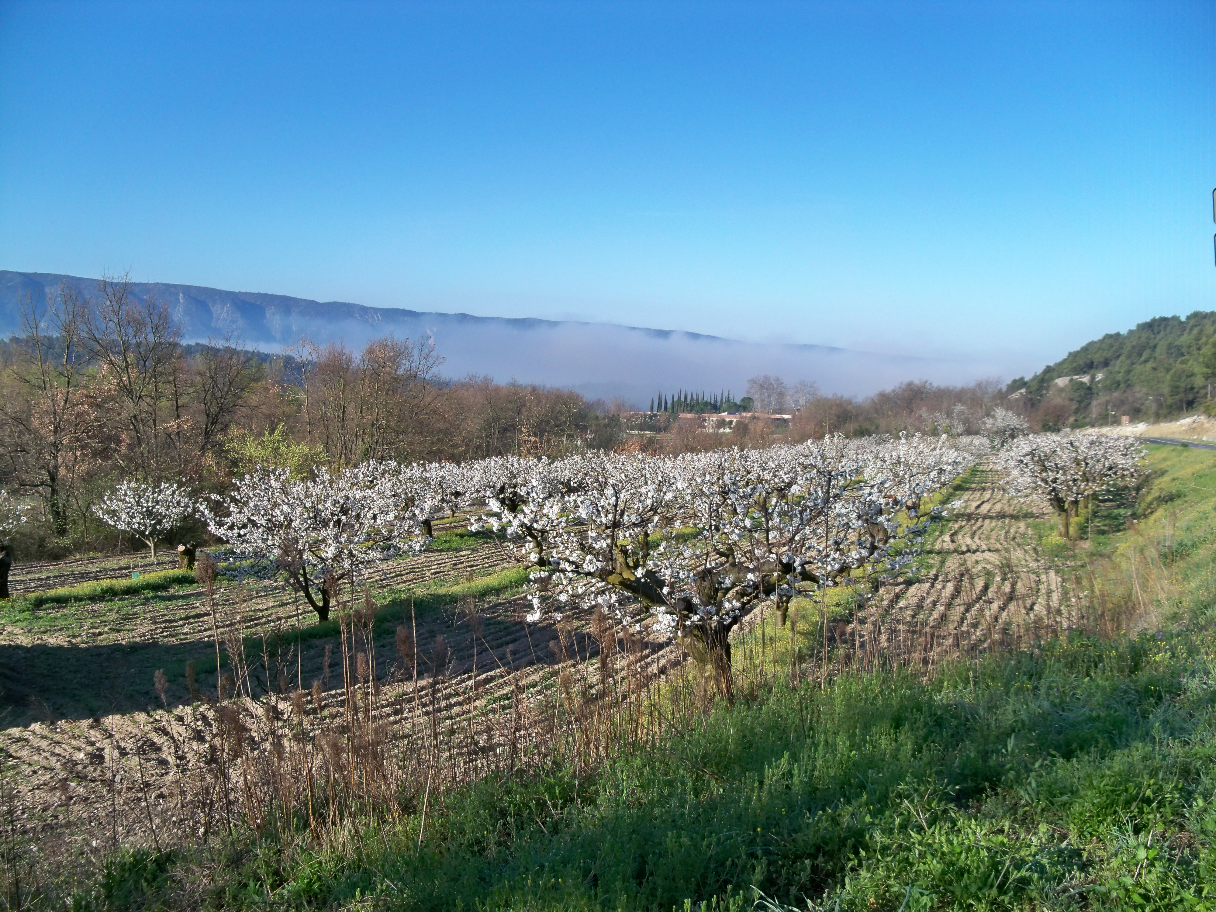 Cherry tree field in Luberon, Vaucluse, France